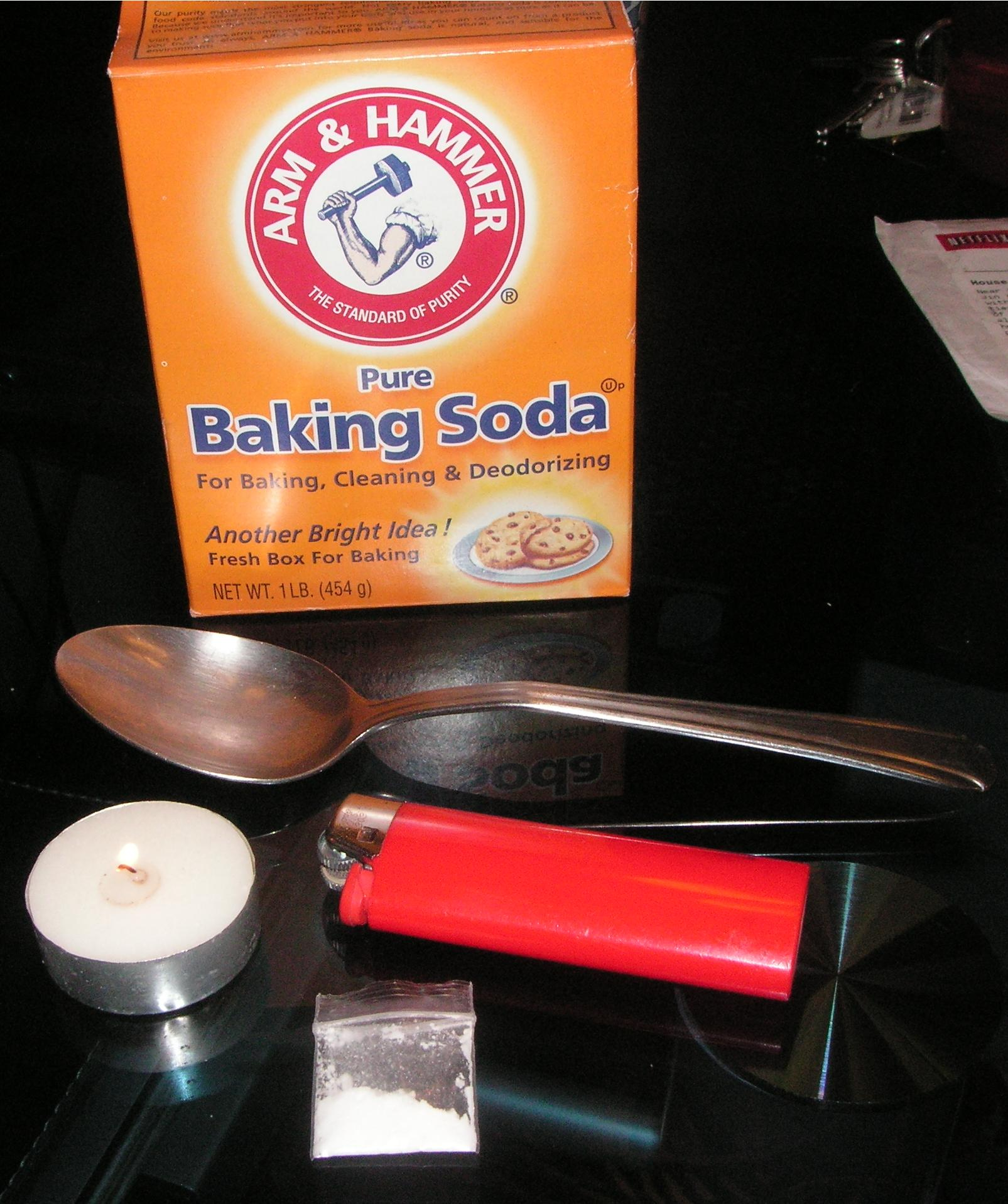 Crack Constituents